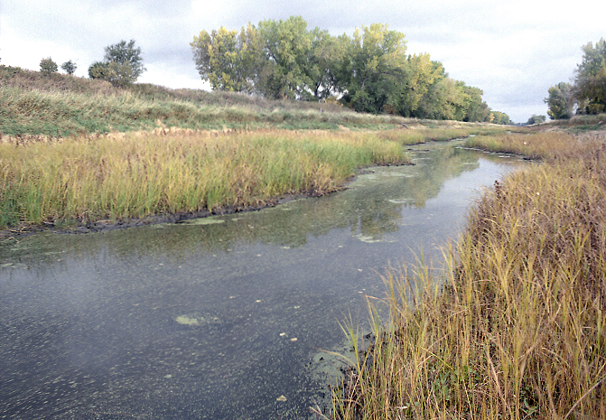 Photograph by Tim Kiser. The Bois de Sioux River below the dam at Lake Traverse, en:6 October en:1996.